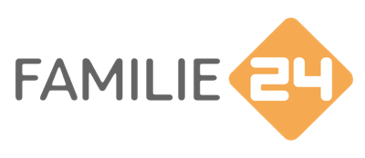 Logo of Familie 24